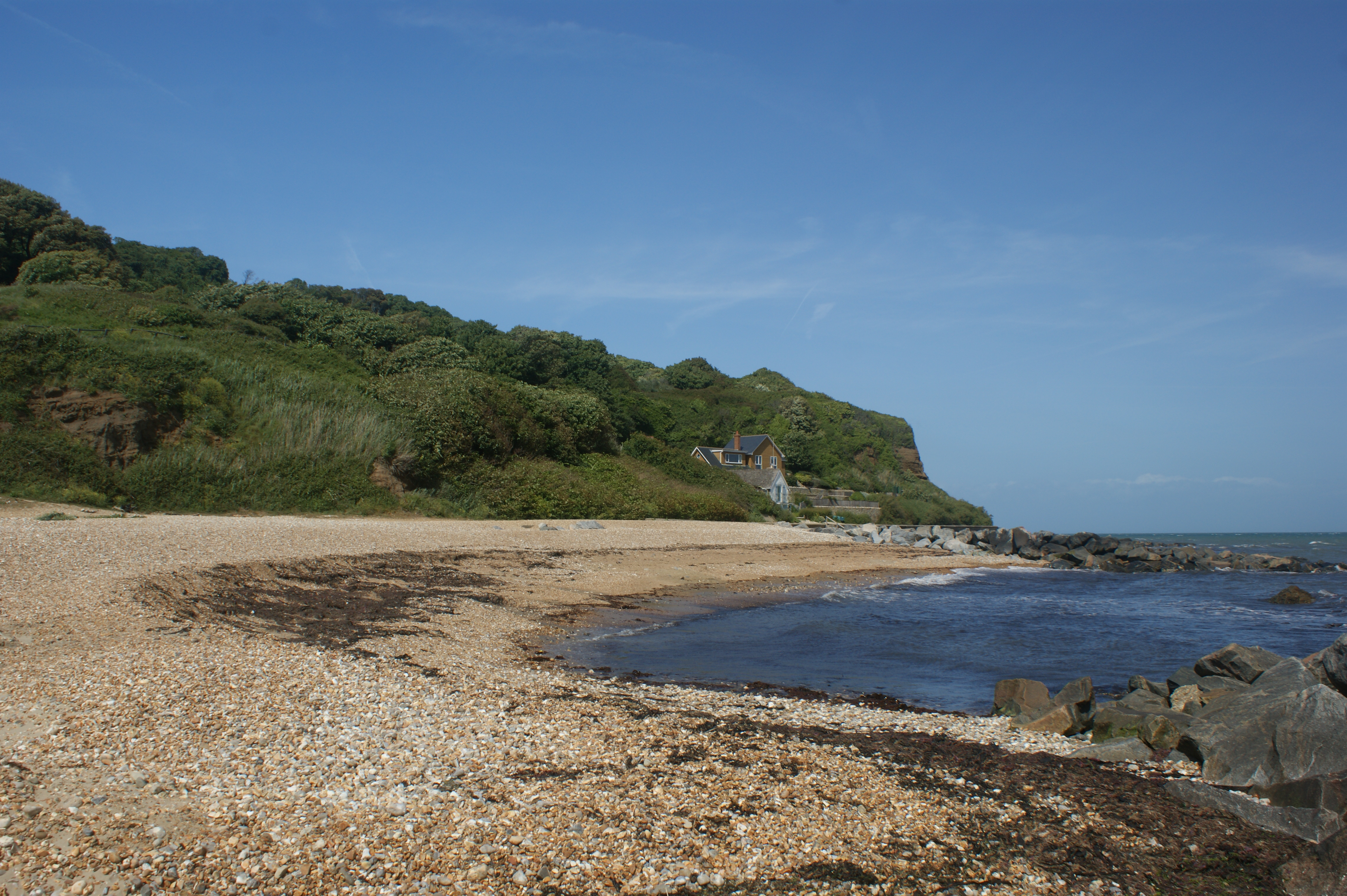 Monks Bay, a secluded bay in Bonchurch, Isle of Wight off Shore Road.